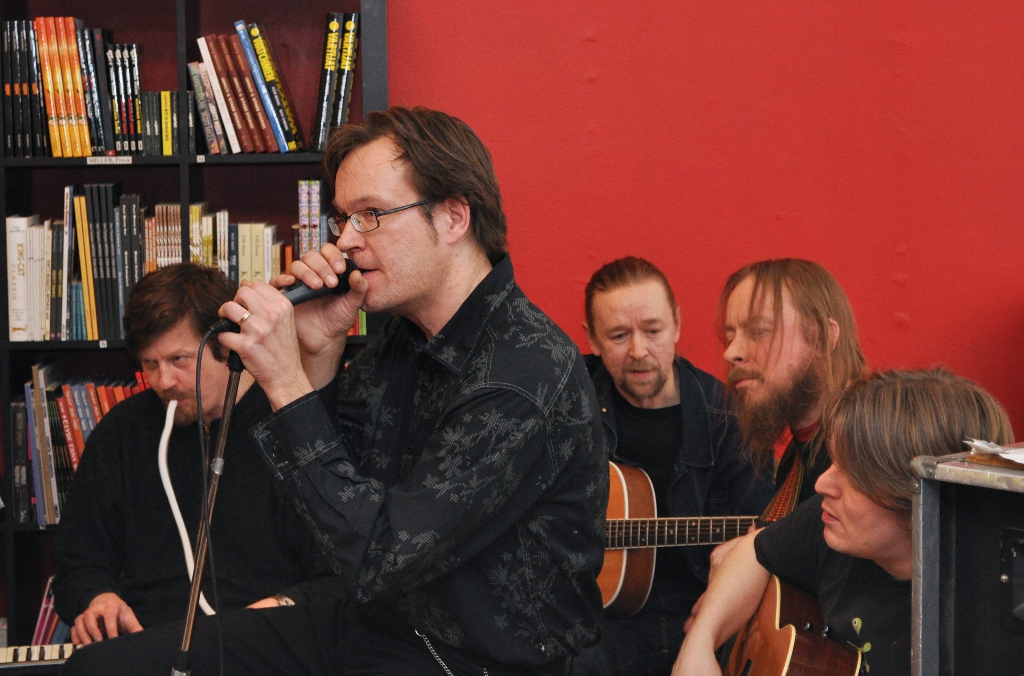 Radiopuhelimet, Finnish rock band, Helsinki, March 2009.